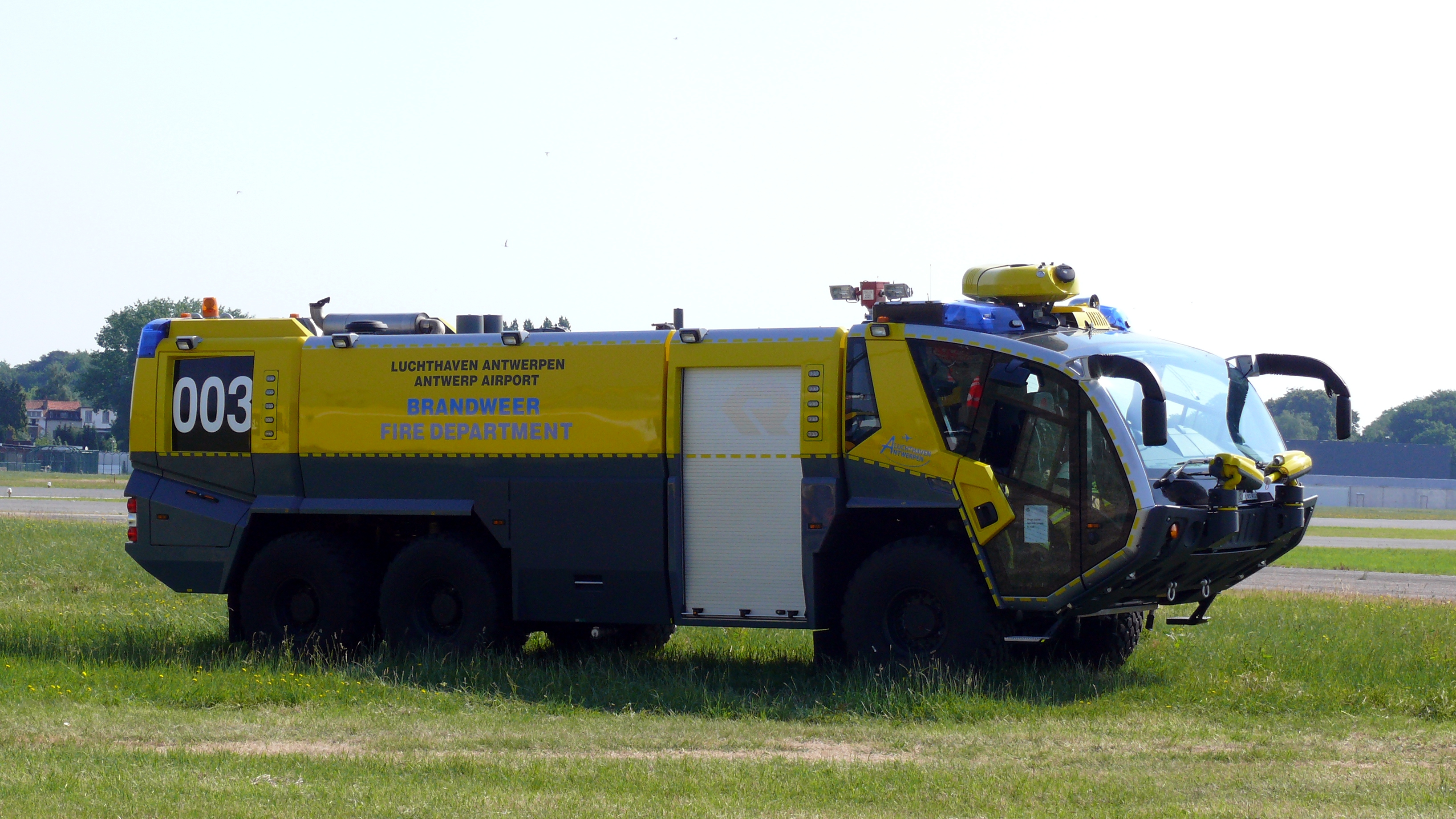 Rosenbauer fire truck at Antwerp International Airport.